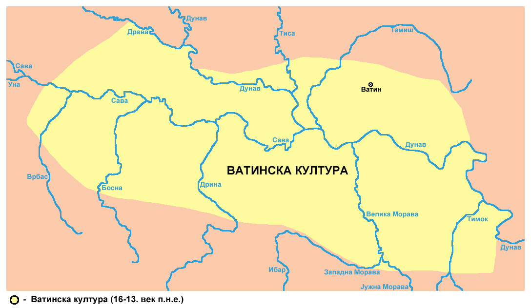 Vatin culture (16th-13th century BC).